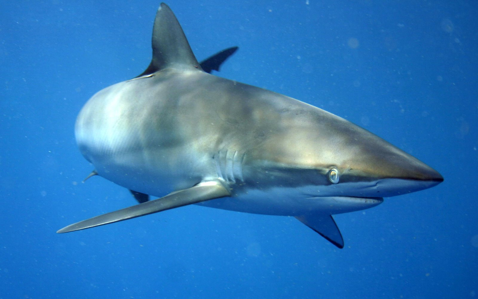 Silky shark (Carcharhinus falciformis) at Jardines de la Reina, Cuba